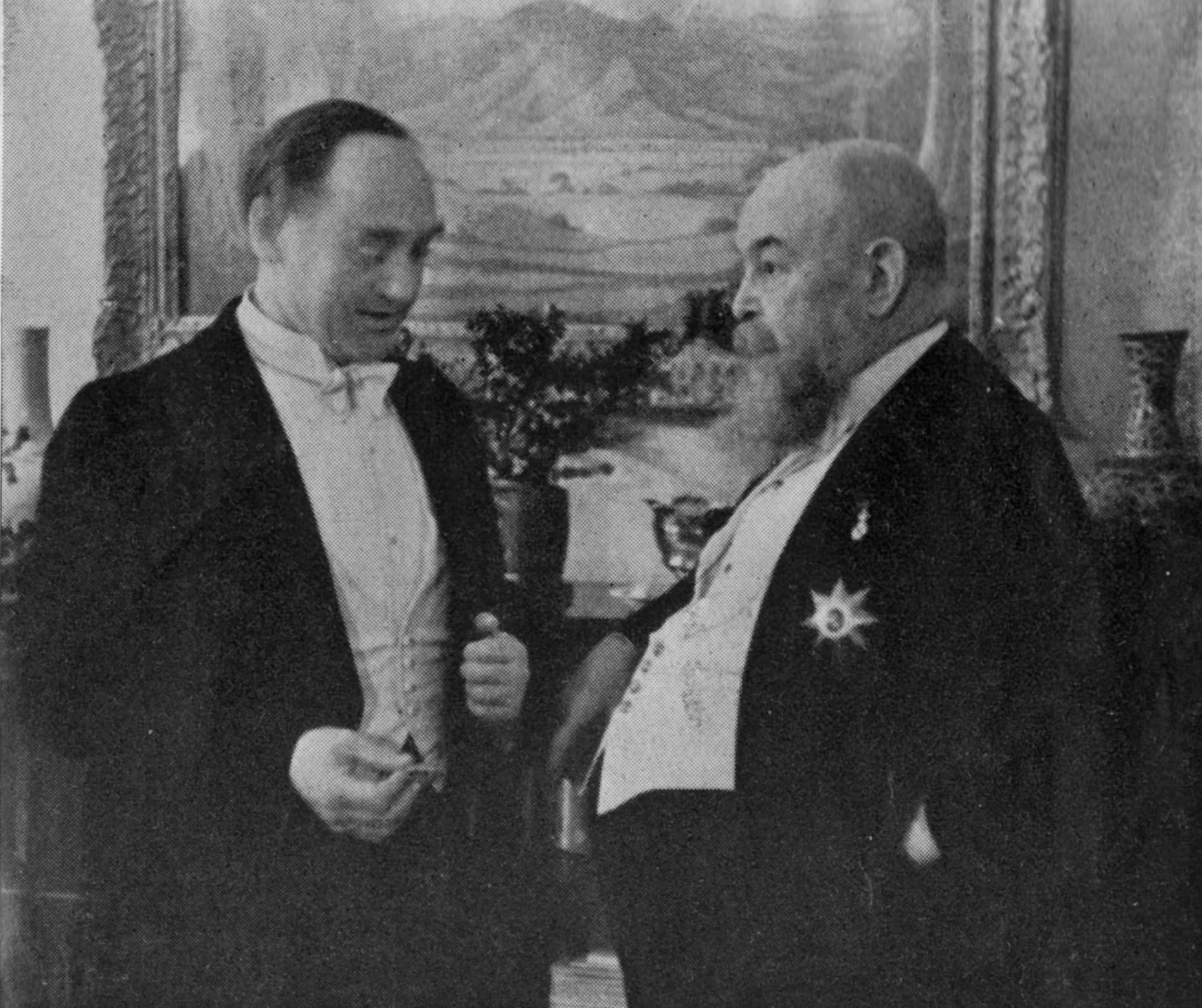 The Hague, NetherlandsOswald Pirow (left) and Dr. H.P.N. Muller, former consul general of the Orange Free State in The Hague, 1938